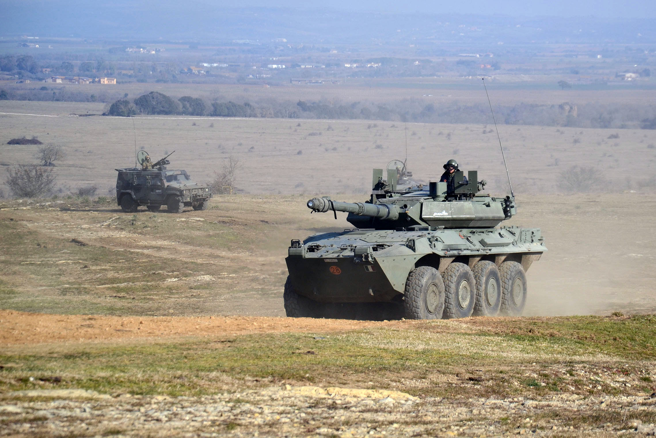 Italian Army Regiment "Lancieri di Montebello" (8th) Centauro tank destroyer and Lince vehicles